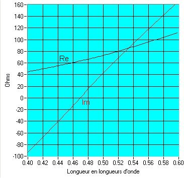 Impedance of a lambda/2 dipole antenna. Labels in french. 2006